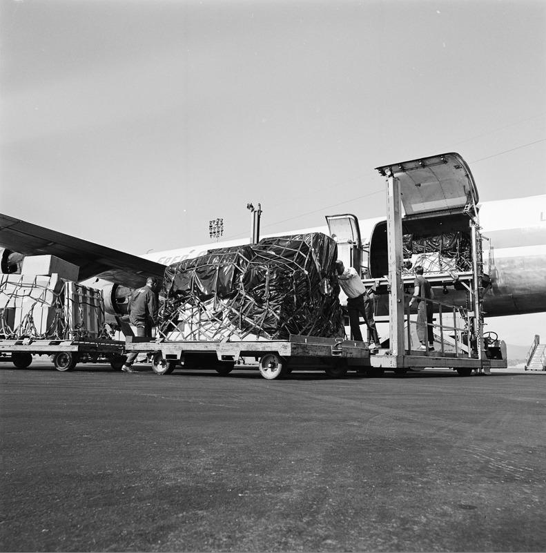 Fred. Olsen Air Transport Douglas DC-6 at Oslo Airport, Fornebu